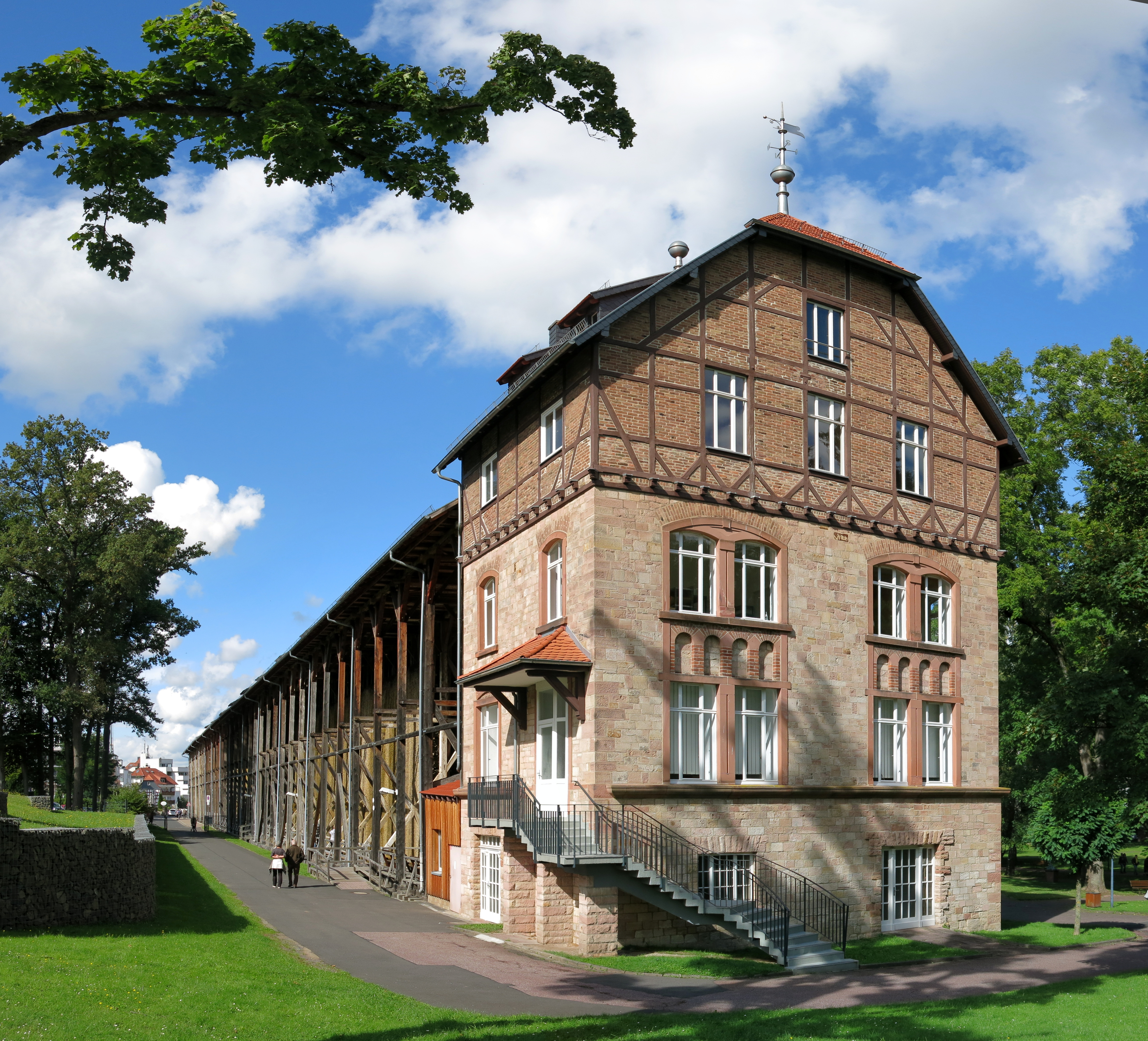 Graduation house of thre saline in Bad Orb .